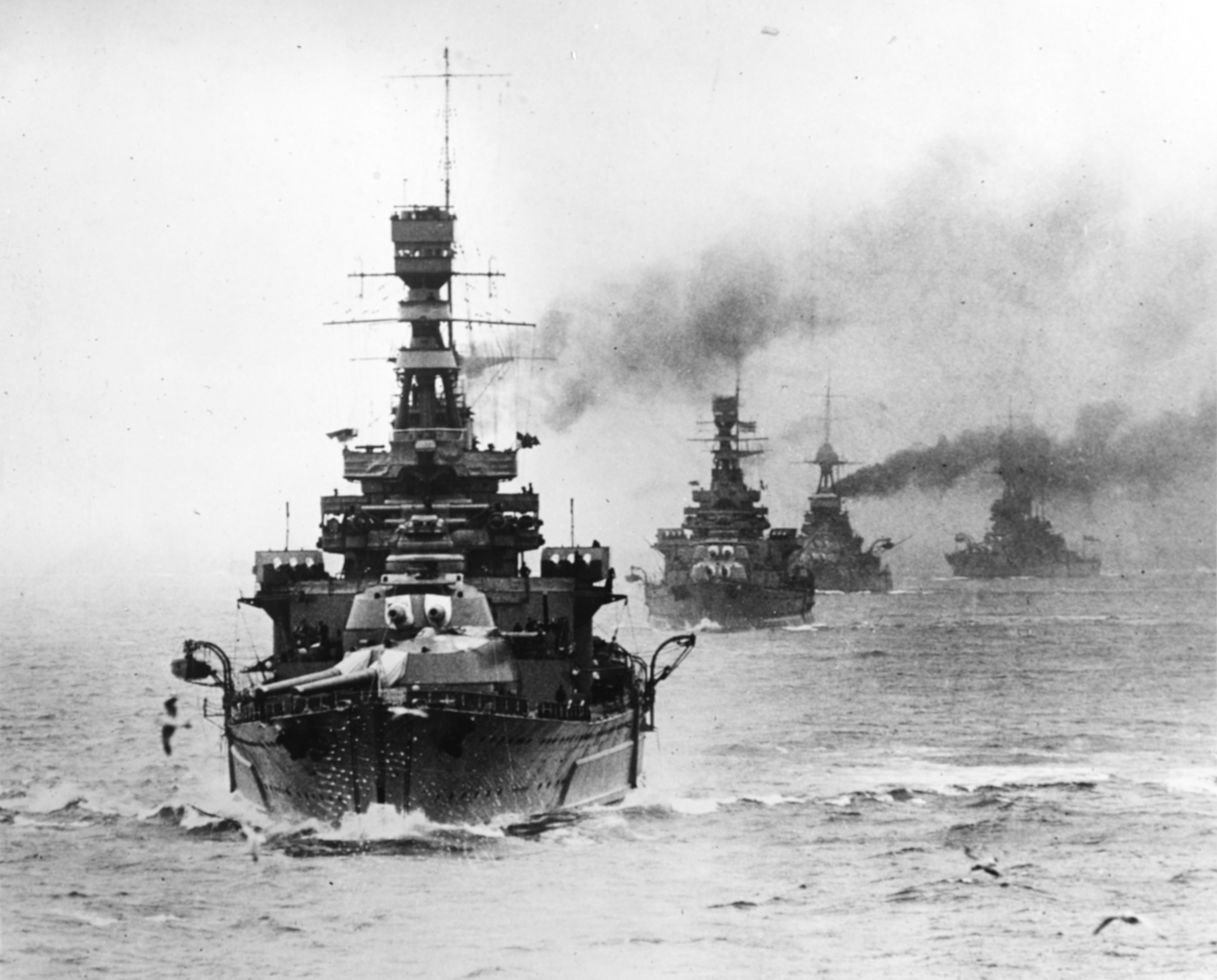 The battlecruiser HMS Repulse leading other Royal Navy capital ships during maneuvers, circa the late 1920s. The next ship astern is HMS Renown. The extensive external side armor of Repulse and the larger "bulge" of Renown allow these ships to be readily differentiated.